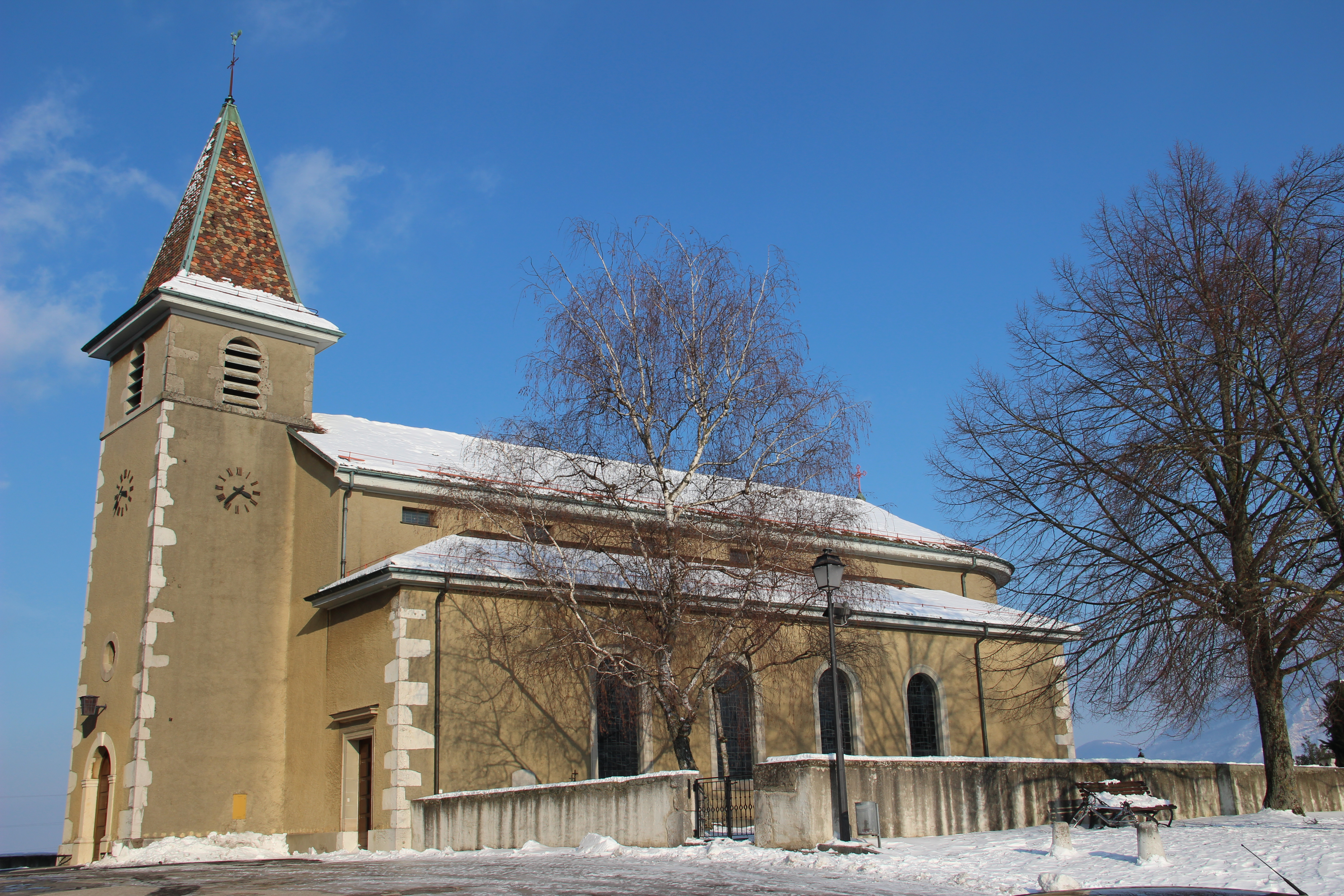 Church at the Commanderie de Compesières